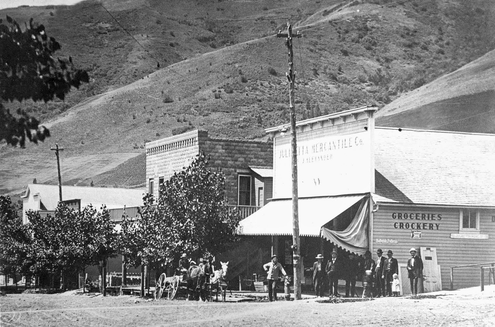 Main Street in Juliaetta, Idaho.